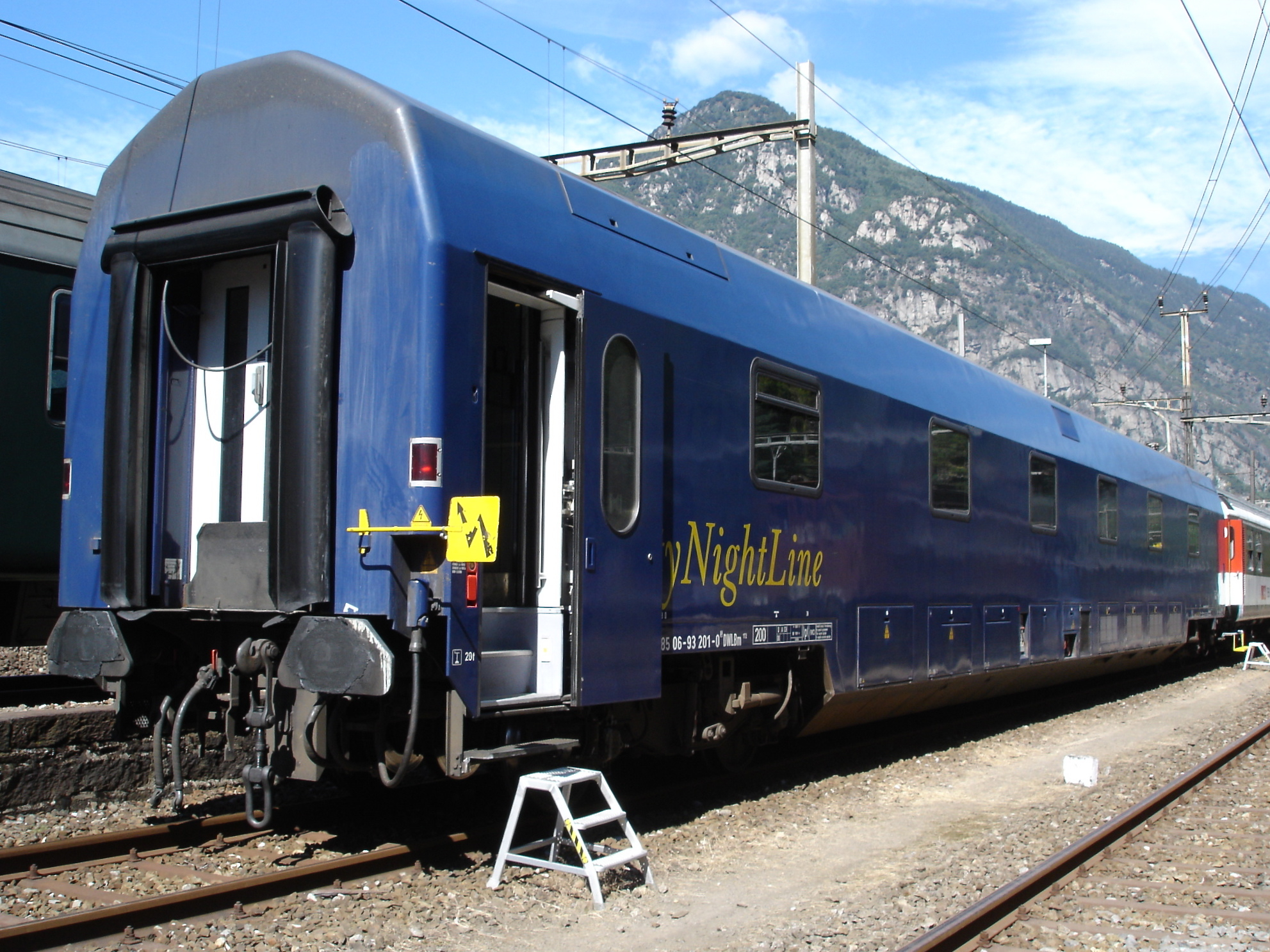 CNL DWLABm172 61 85 06-93 201-0P at Biasca train station.